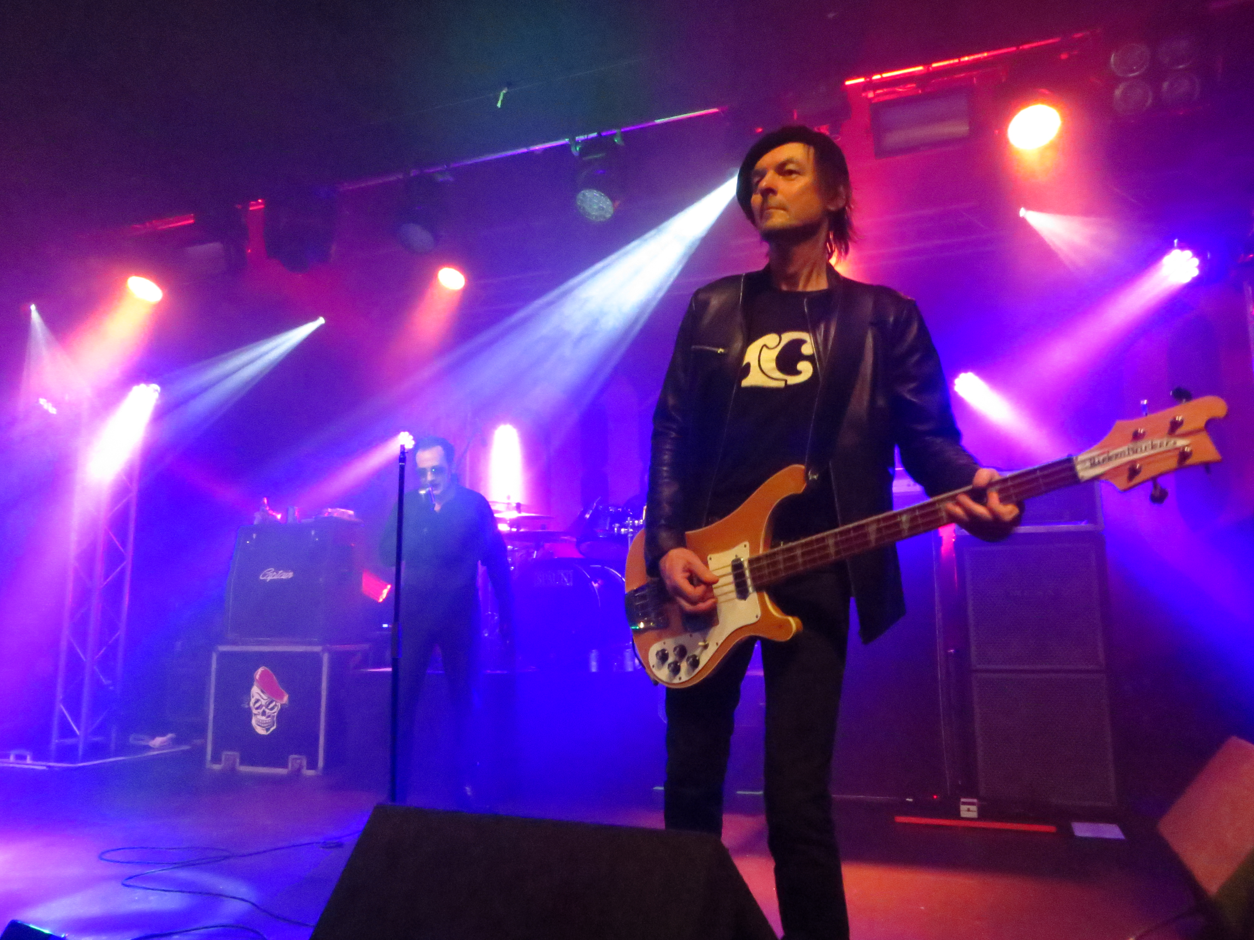 Paul Gray on stage with The Damned in 2018